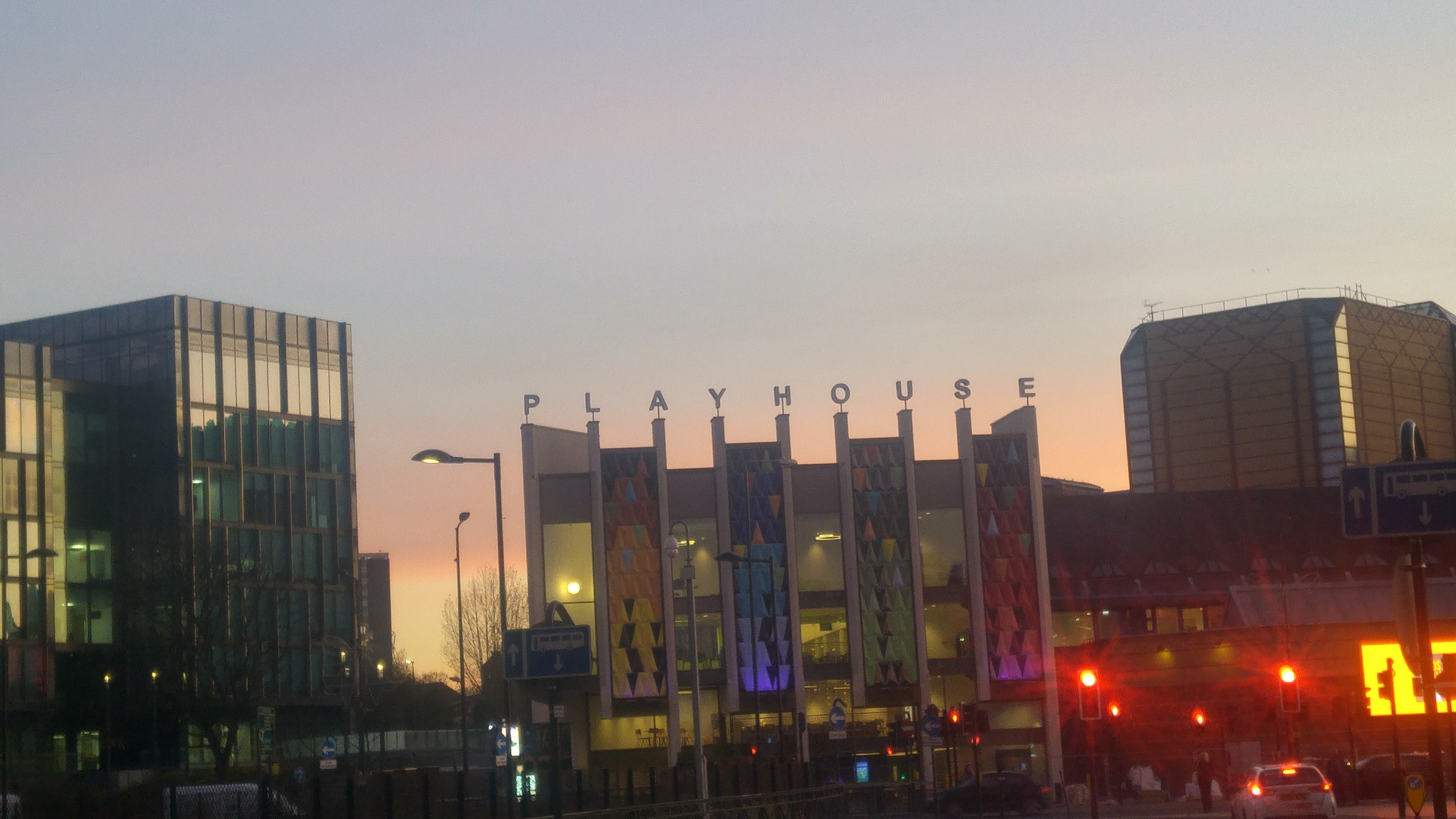 Leeds Playhouse at Dawn, November 2019